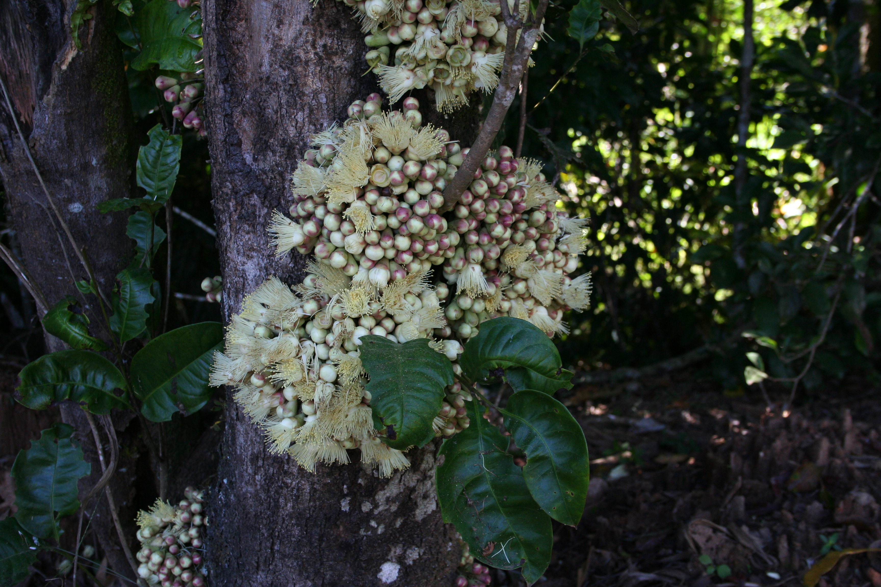 Syzygium cormiflorum, Lake Eacham - buds and flowers on trunk